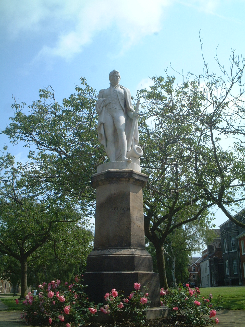 Monument to Horatio Nelson in the grounds of Norwich Cathedral, Norfolk, England. Photo taken on a FujiFilm Finepix 40i digital camera by Paul Hayes in 2005, and uploaded to Wikimedia by same.